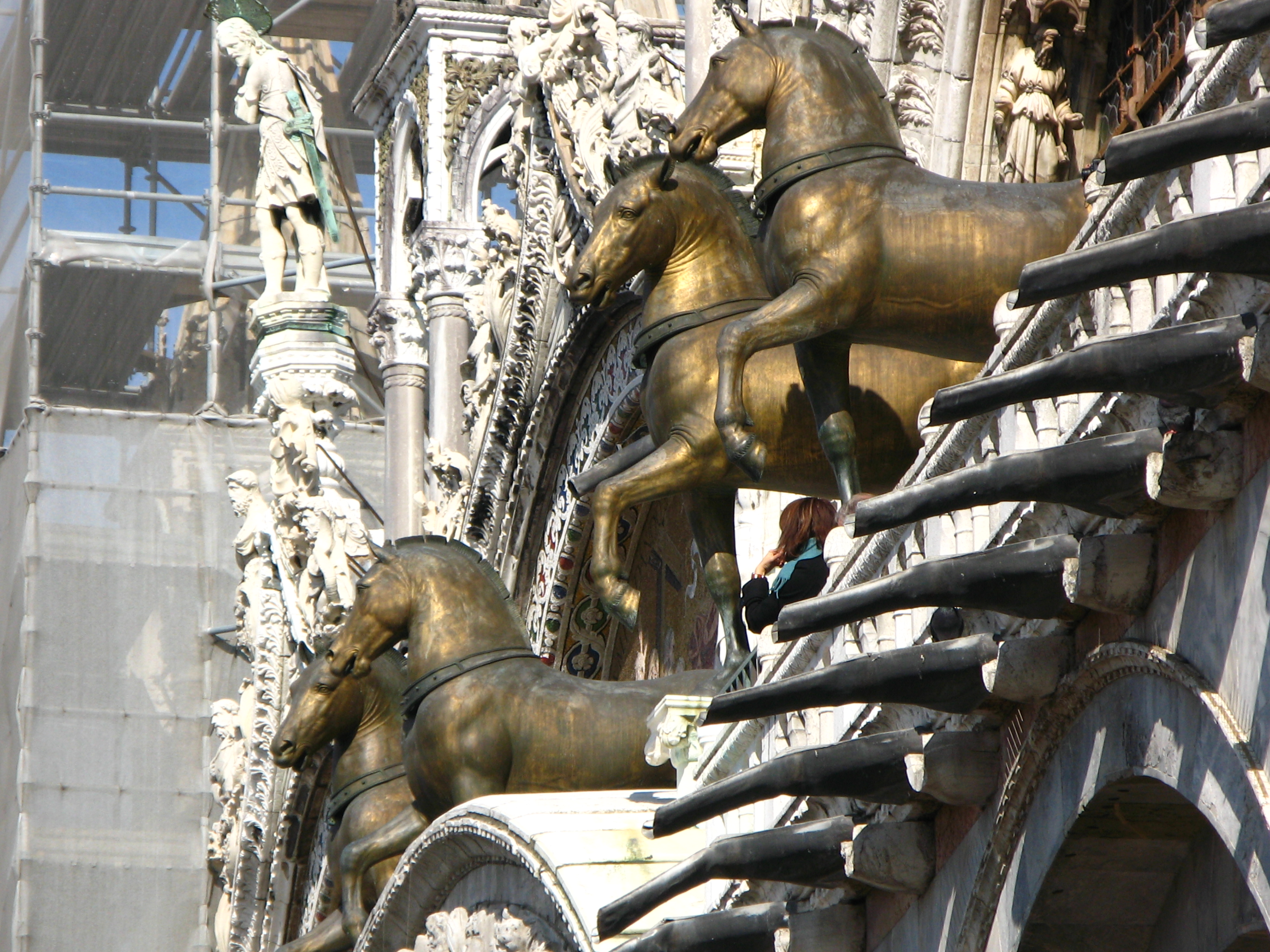 Horses stolen from Carigrad hipodrome (in Fourth Crusade 1204.), today standing on San Marco cathedral, Venice.